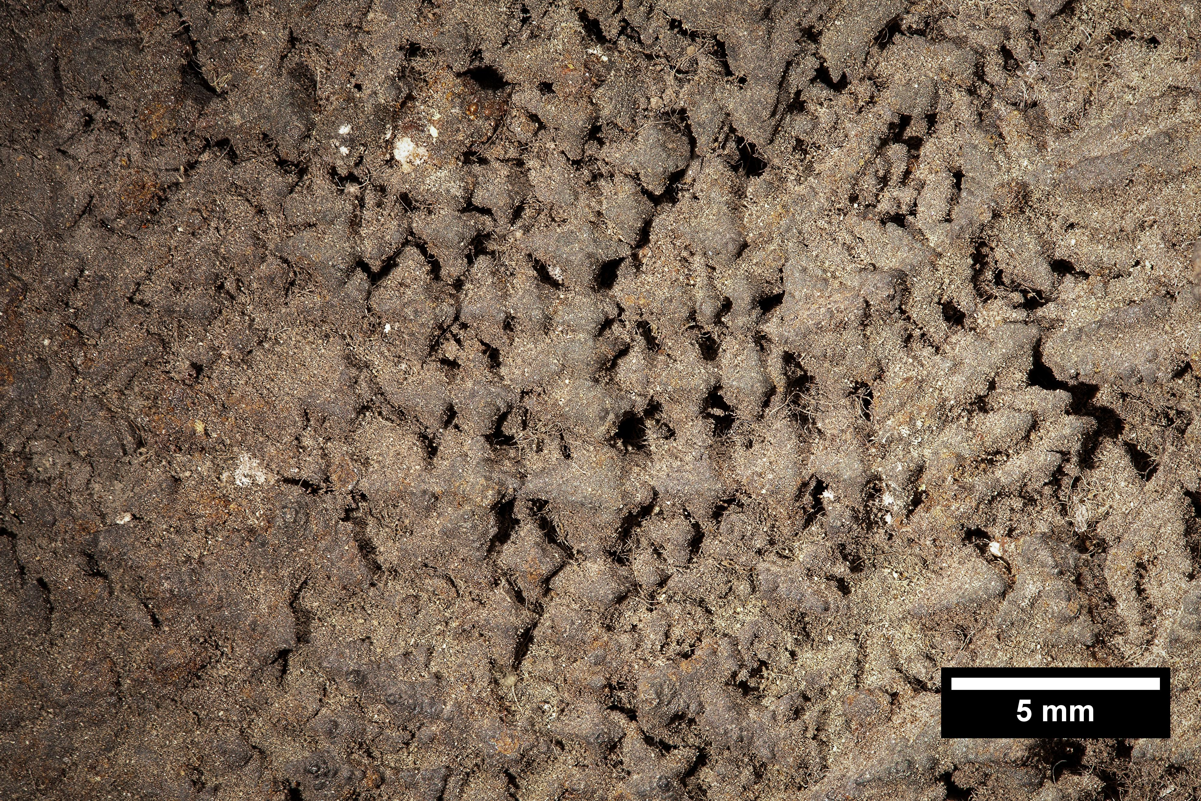 Pig iron.